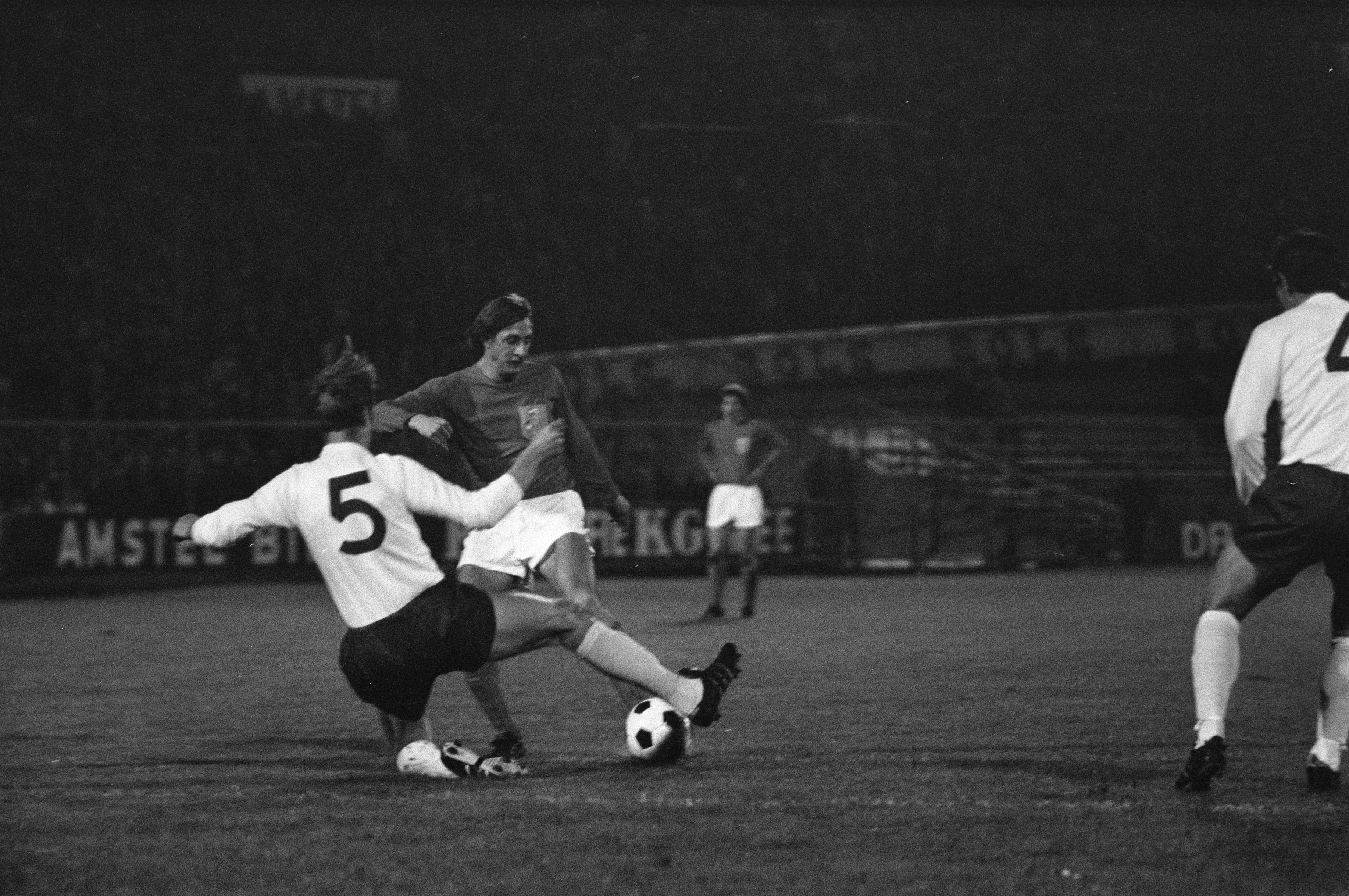 Nederland tegen Engeland 0-1. Cruyf probeert Jack Charlton te passeren.